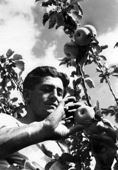 Ein HaHoresh, Economy of Israel